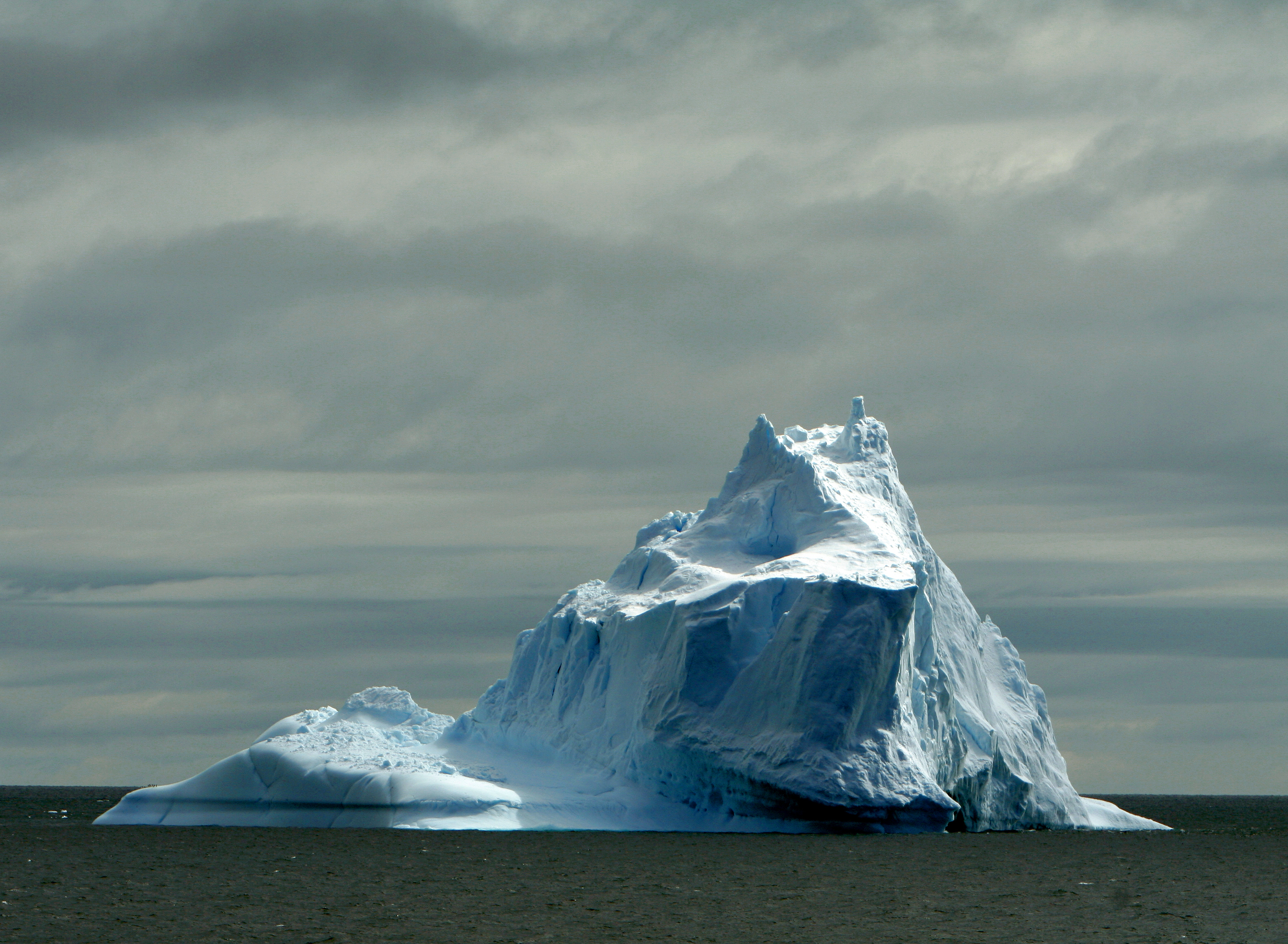 Iceberg in Antarctic waters